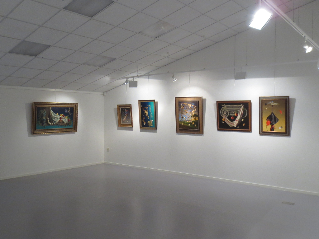 Paintings by Lodewijk Bruckman in Museum de Oude Wolden in Bellingwolde in the Netherlands.